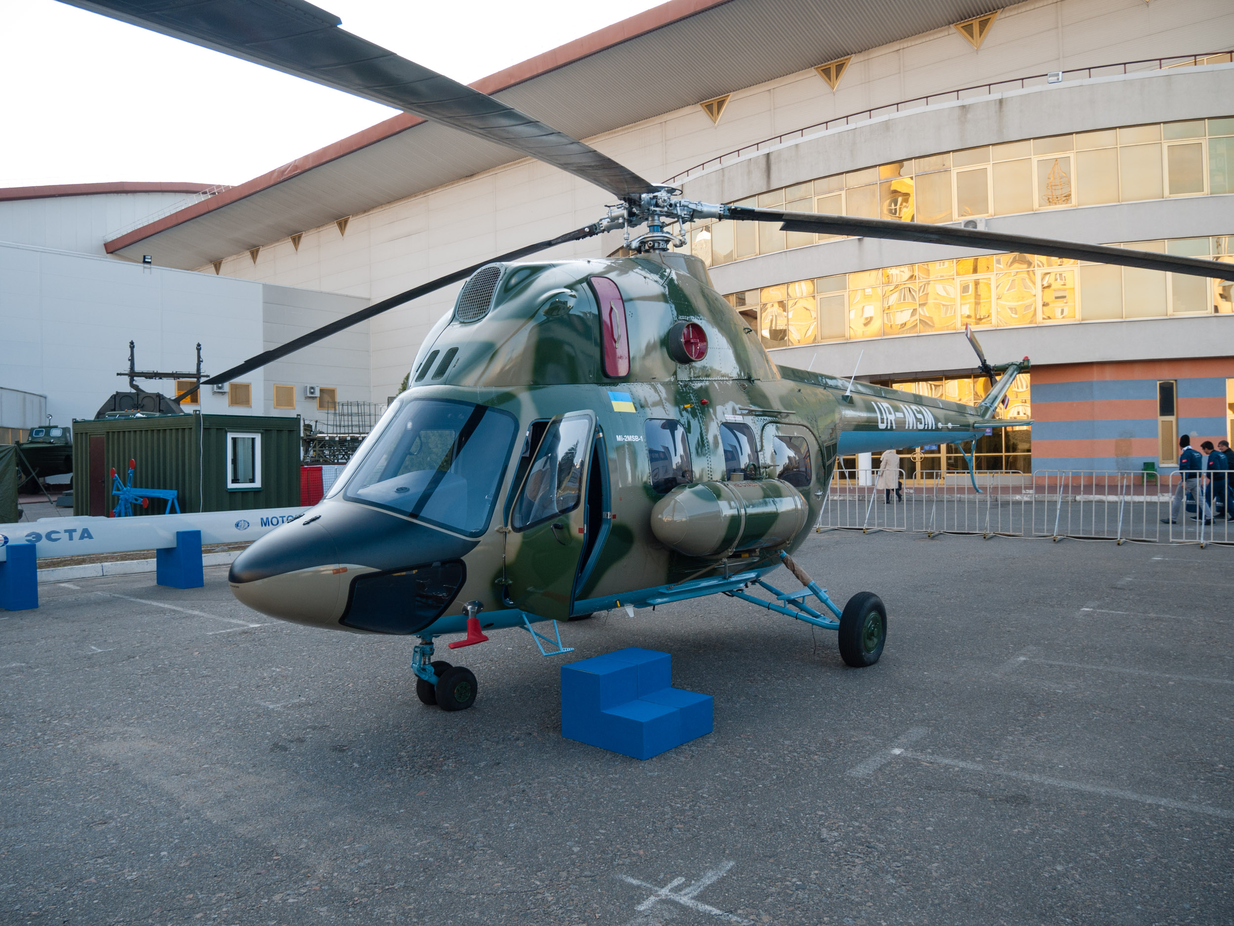 Mil Mi-2MSB-1 by Motor Sich (Ukraine). 'Zbroya ta Bezpeka' military fair, Kyiv, Ukraine, 2019